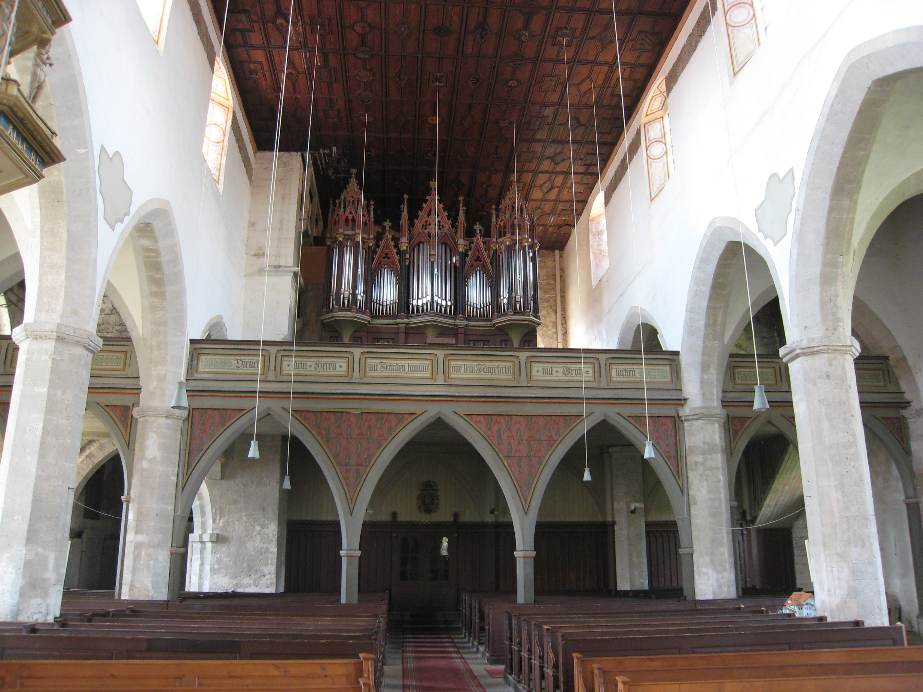 St Stephen's church Bad Langensalza 2